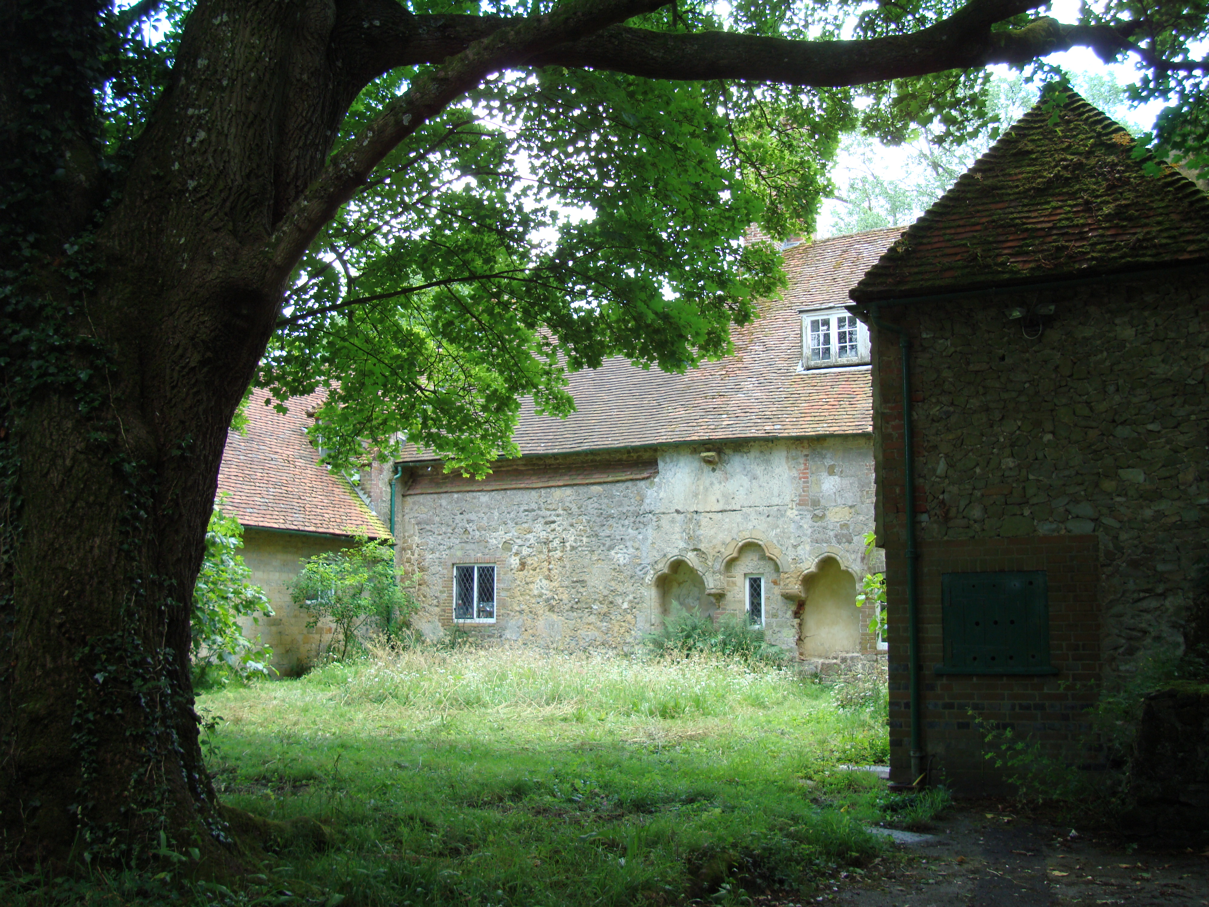 Photograph of Shulbrede Priory, West Sussex, England